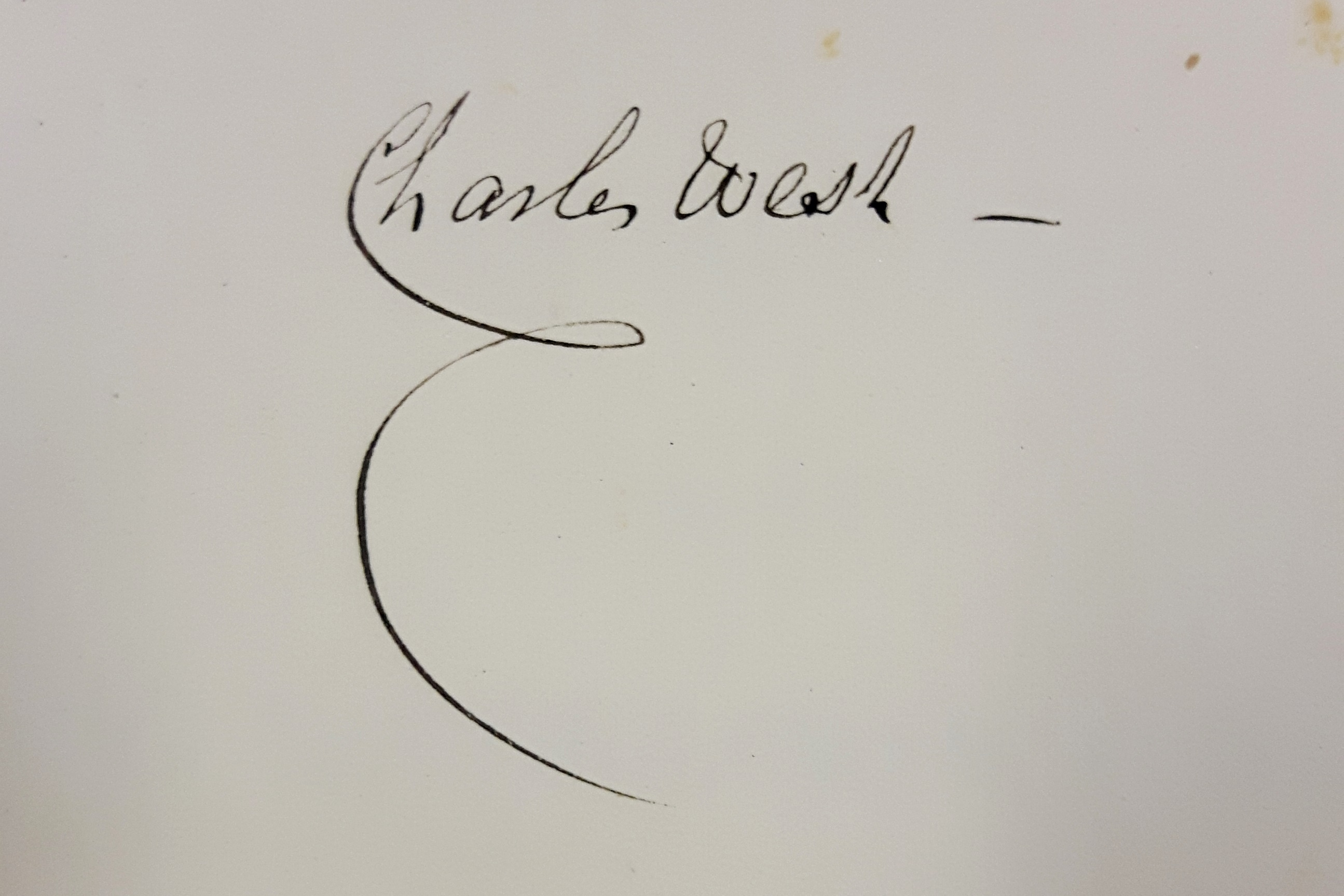 Charles West's signature from his papers in Great Ormond Street Hospital's archive, London